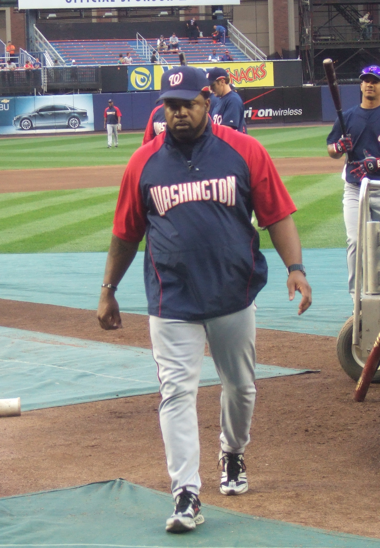 Professional baseball coach and former player, Lenny Harris during batting practice in Shea Stadium, 2008-09-10